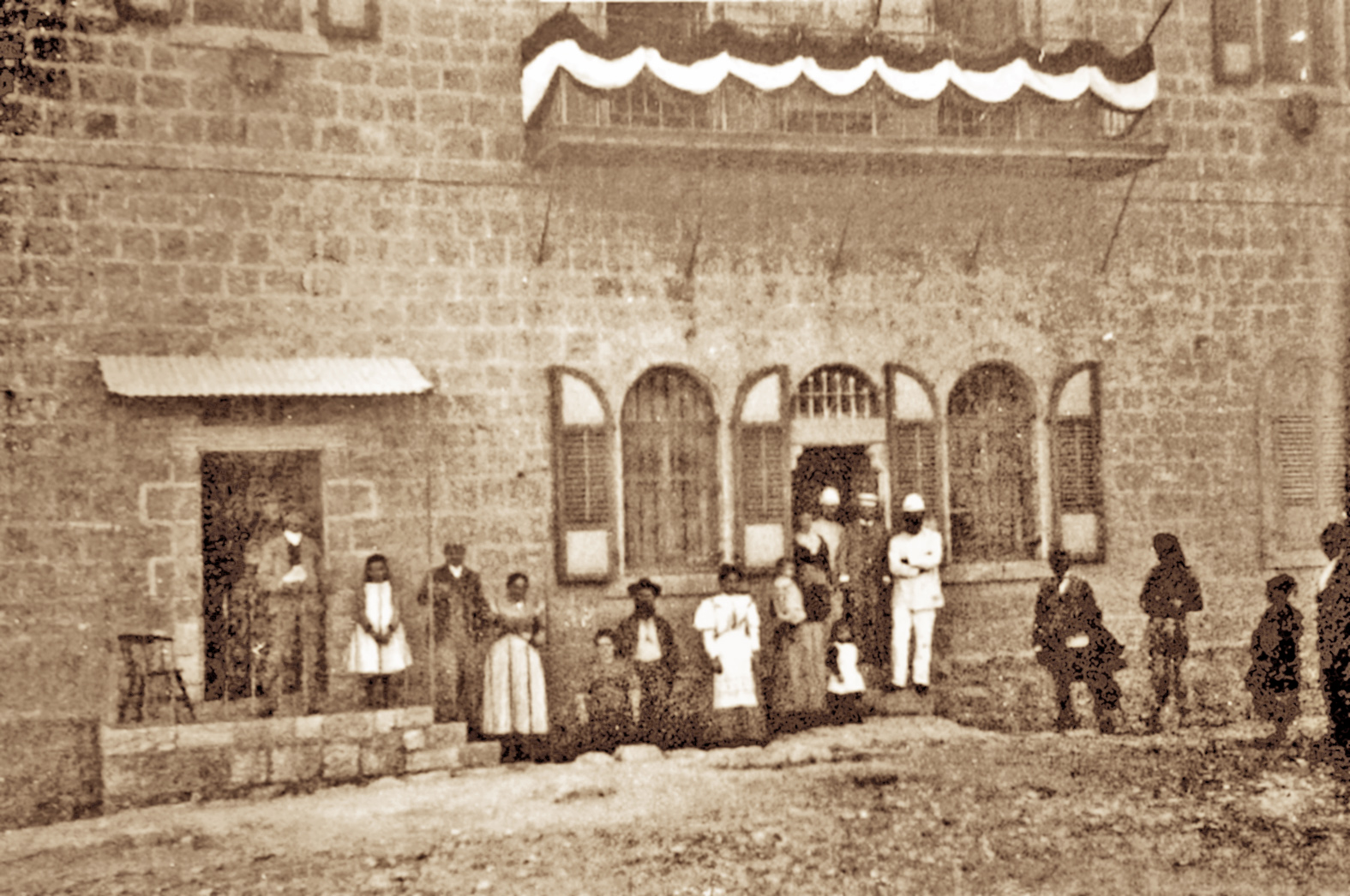 Mamilla.